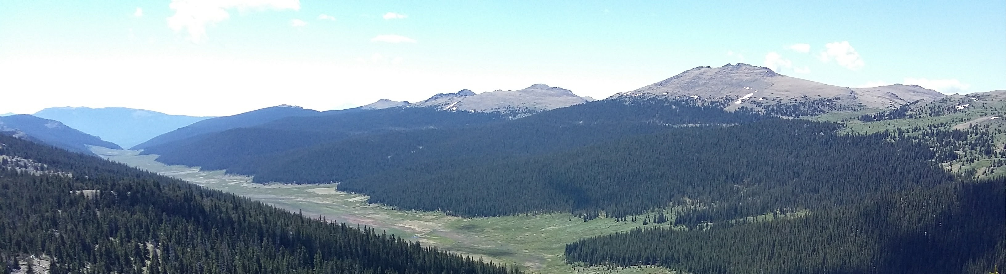 Kenosha Mountains viewed from Platte Peak looking southeast. Windy Peak is seen in the distance to the far left with Peak X right of center.